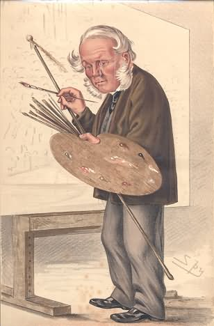 Caricature of William Powell Frith. Caption read "The Derby-Day".